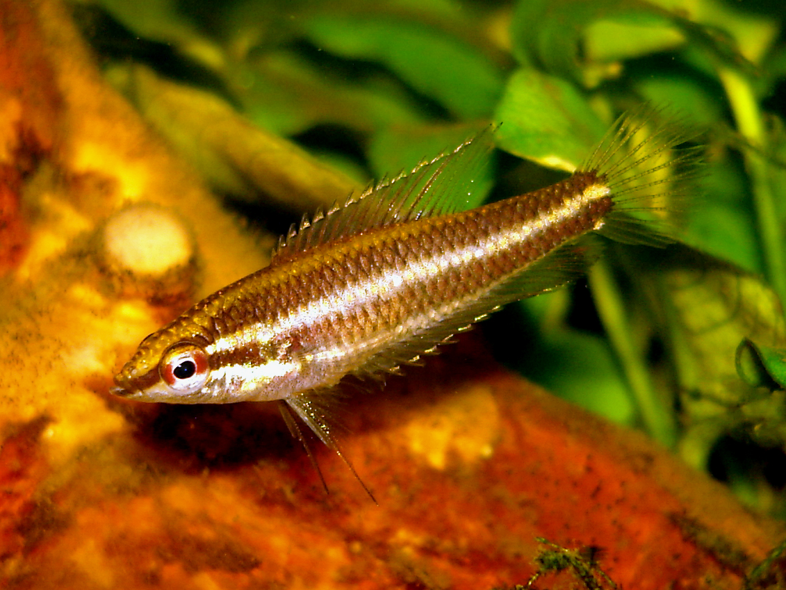 Female licorice gourami Parosphromenus spec. "Langgam"